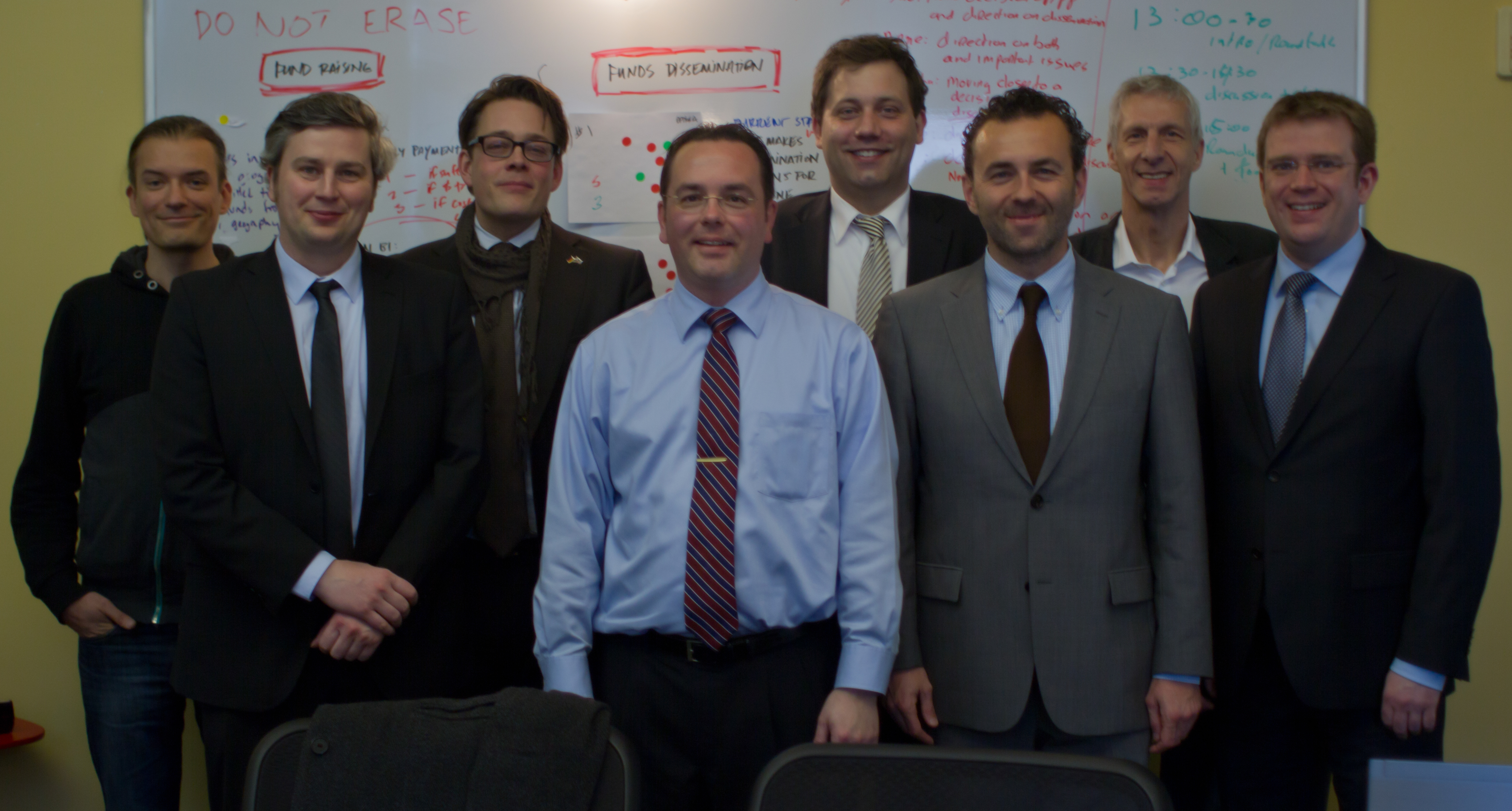 Members of the German Bundestag's sub-committee on new media visiting the Wikimedia Foundation's Office February 13 2012